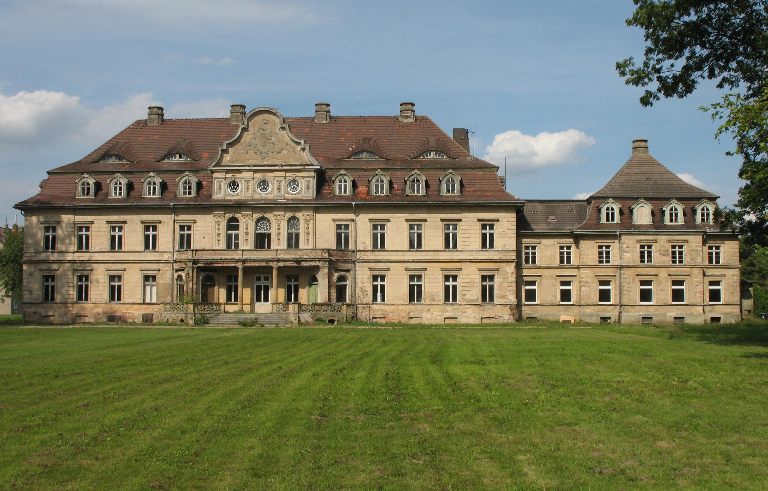 Manor house in Vollrathsruhe, Mecklenburg, Germany